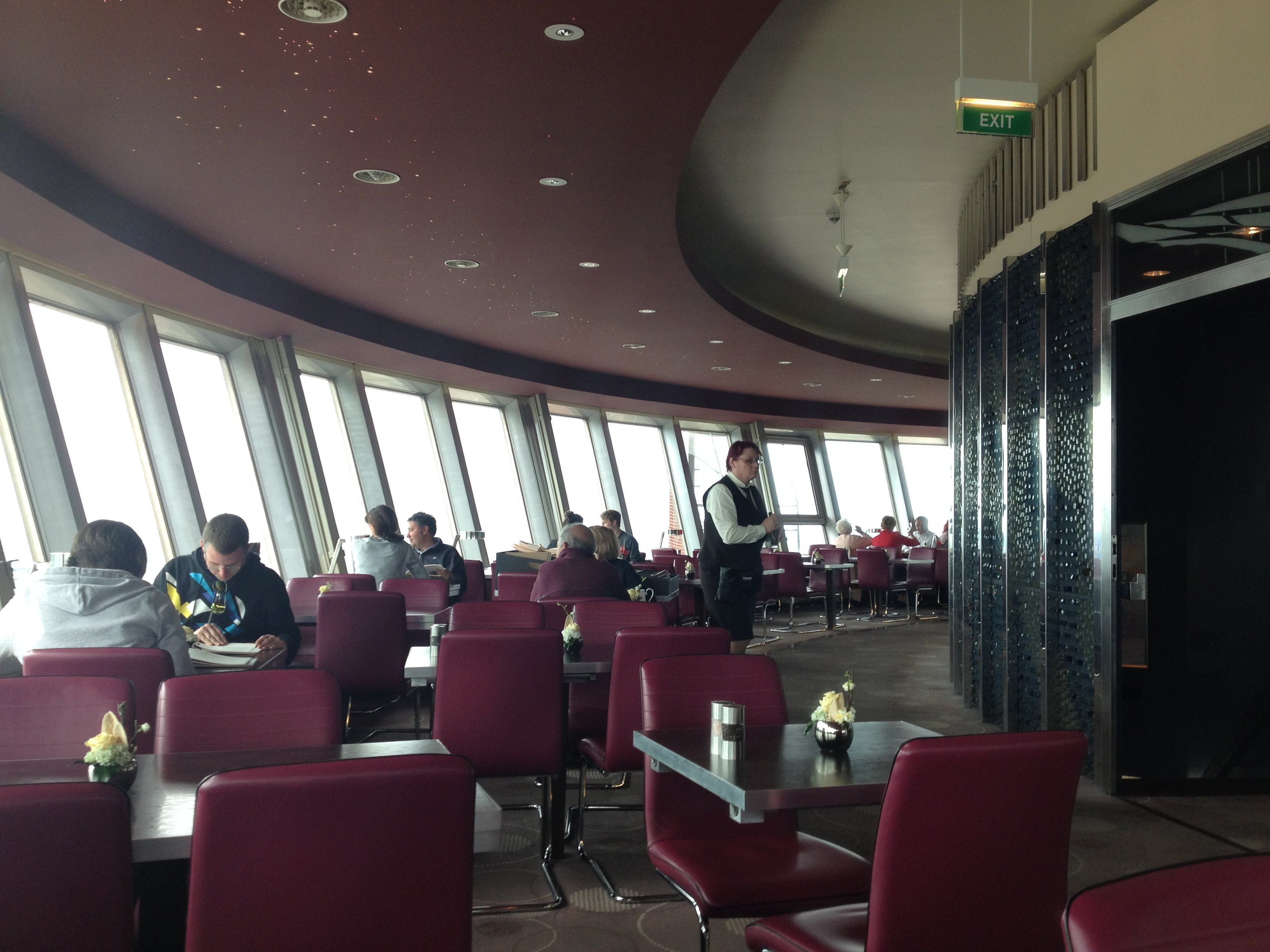 Fernsehturm Berlin restaurant, Berlin, Germany